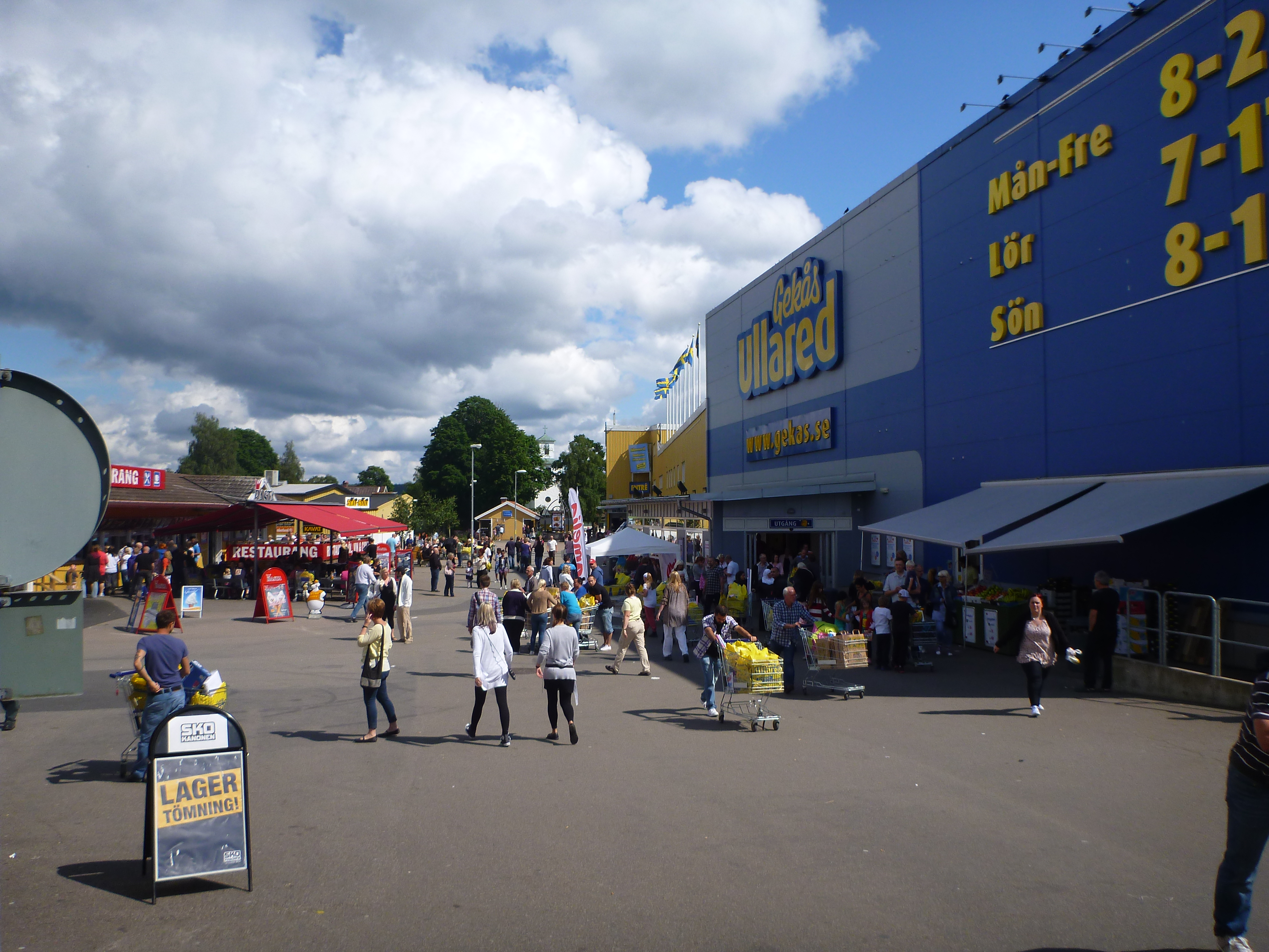 Shopping mile in Ullared